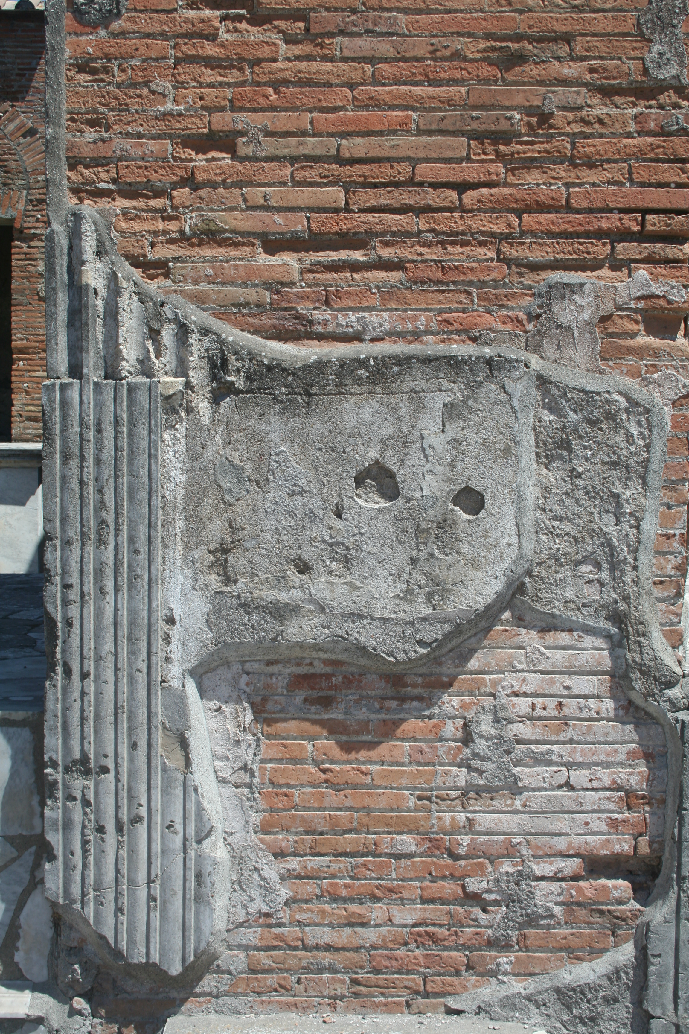 Plaster in Pompeji.